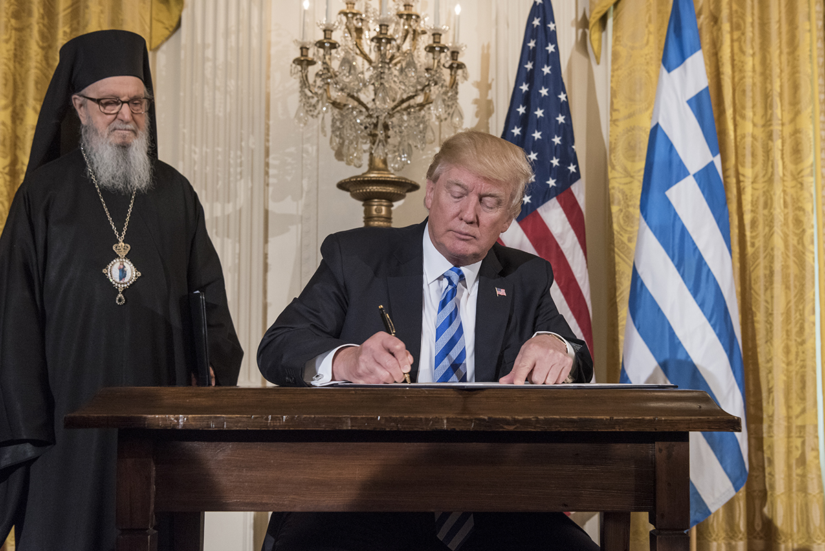 President Donald Trump signs a proclamation, Friday, March 24, 2017, during a Greek Independence Day celebration in the East Room of the White House. (Official White House Photo by Myles Cullen)